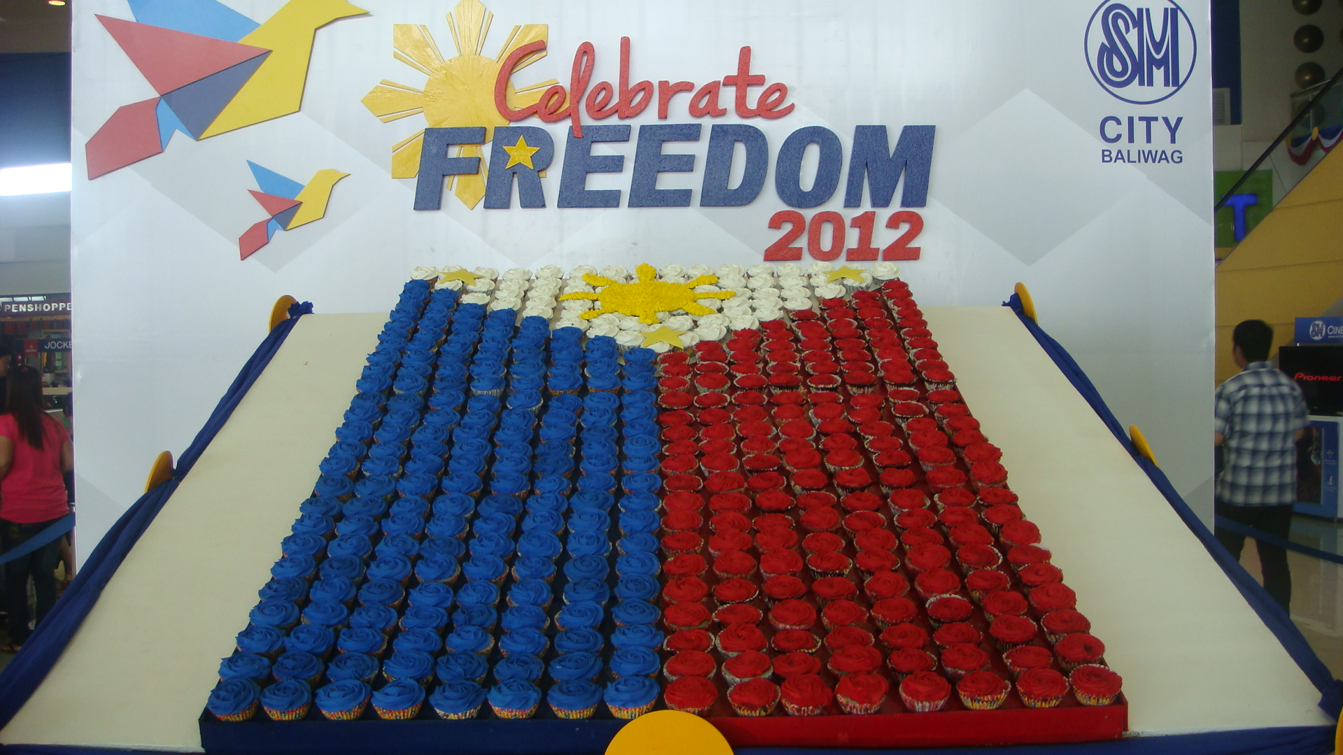 Philippine Flag 2012 giant cupcakes SM Baliuag